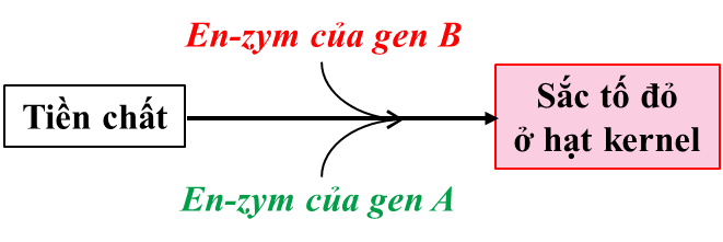 Tương tác cộng gộp ở lúa mì hạt đỏ (Kernel) theo kiểu tăng dần độ biểu hiện tính trạng (15 : 1).